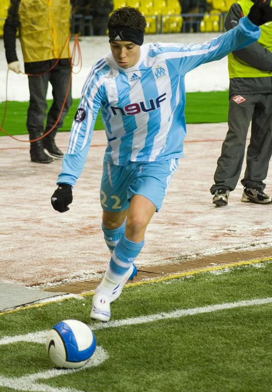 Samir Nasri